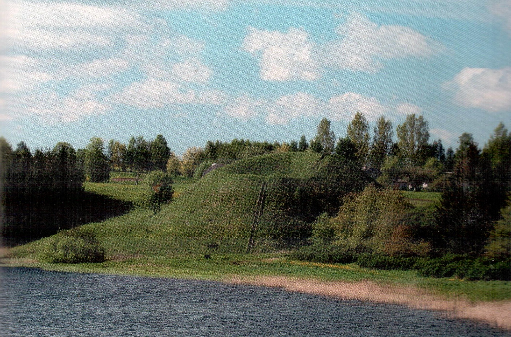 The Paukščiai hillfort is one of the many hillforts established in the area.